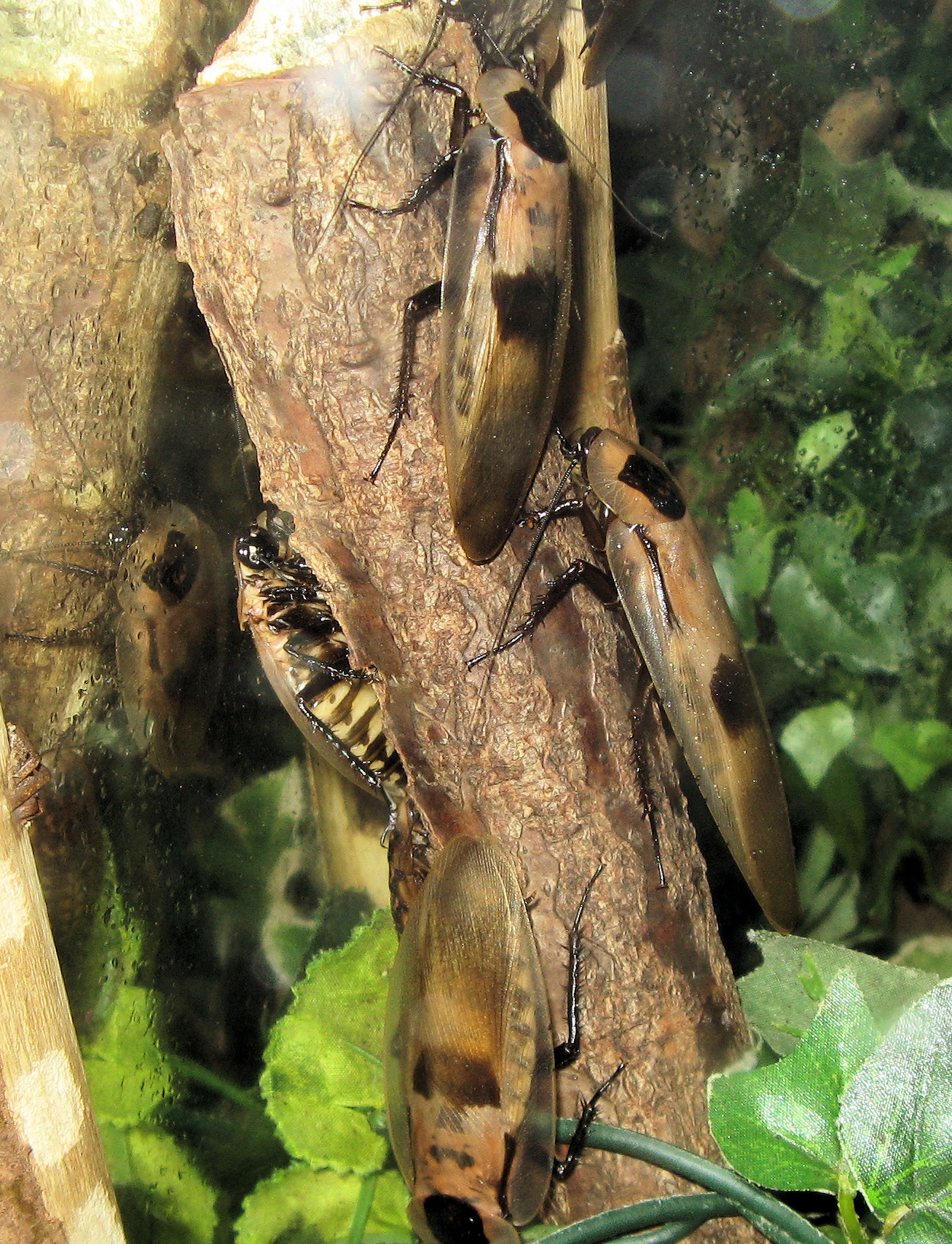 Giant Brazilian Cockroach Blaberus giganteus in Bug World at Bristol Zoo, England.